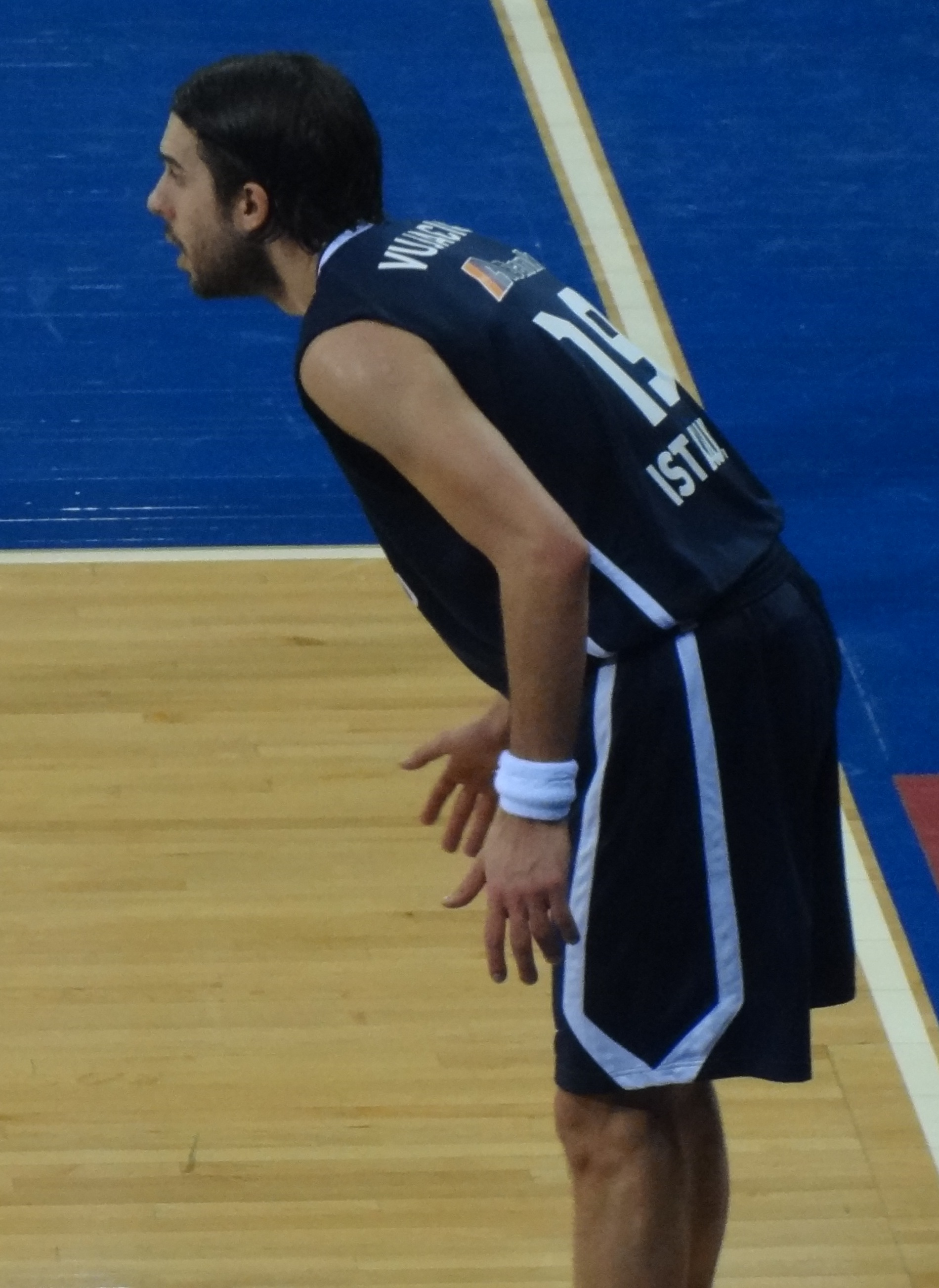 Sasha Vujacic Efes ile Galatasaray'a karşı Eurolig maçında